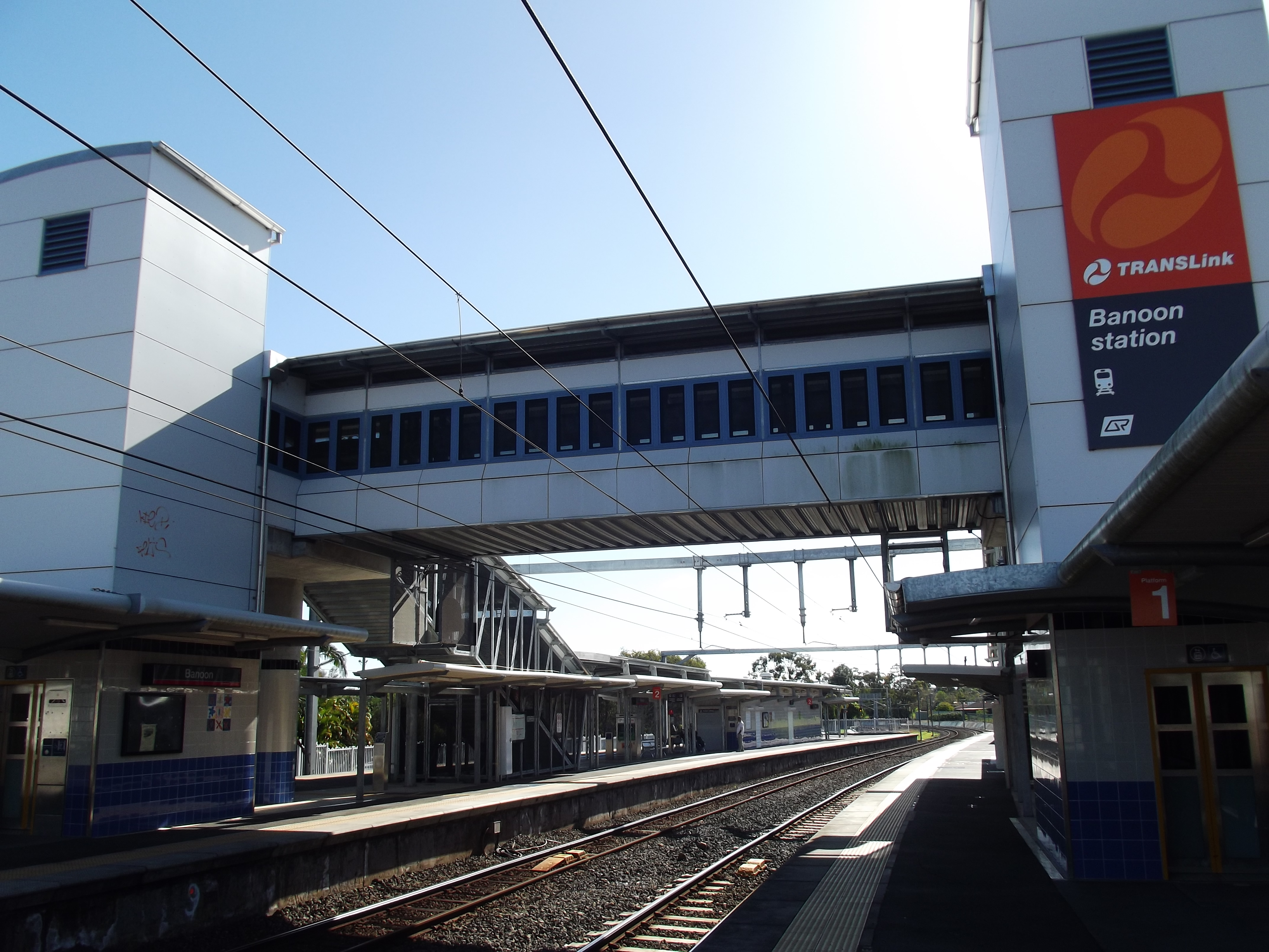 A photo of the Banoon railway station, operated by TransLink, located in Brisbane, Queensland.